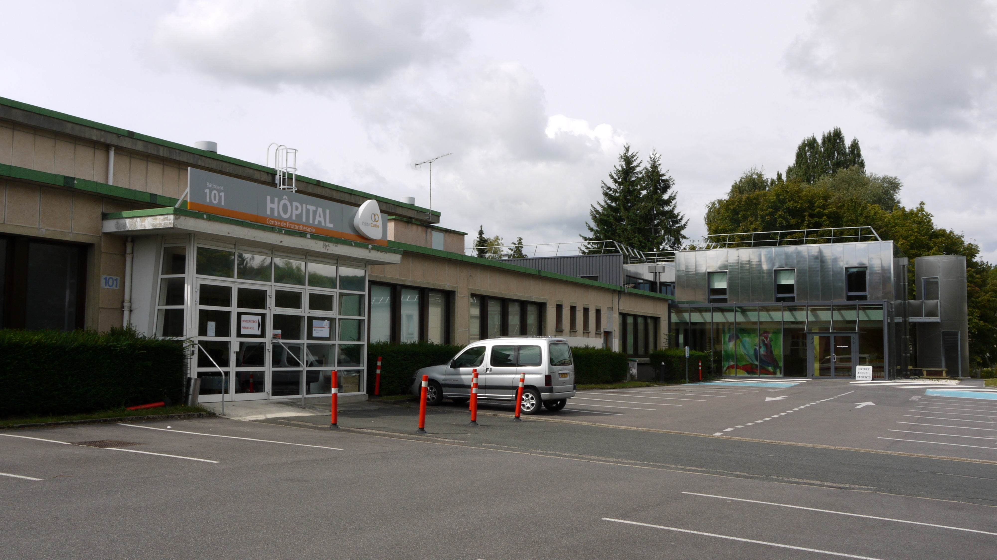 Centre de protonthérapie de l'institut Curie, Université Paris XI, Orsay , France